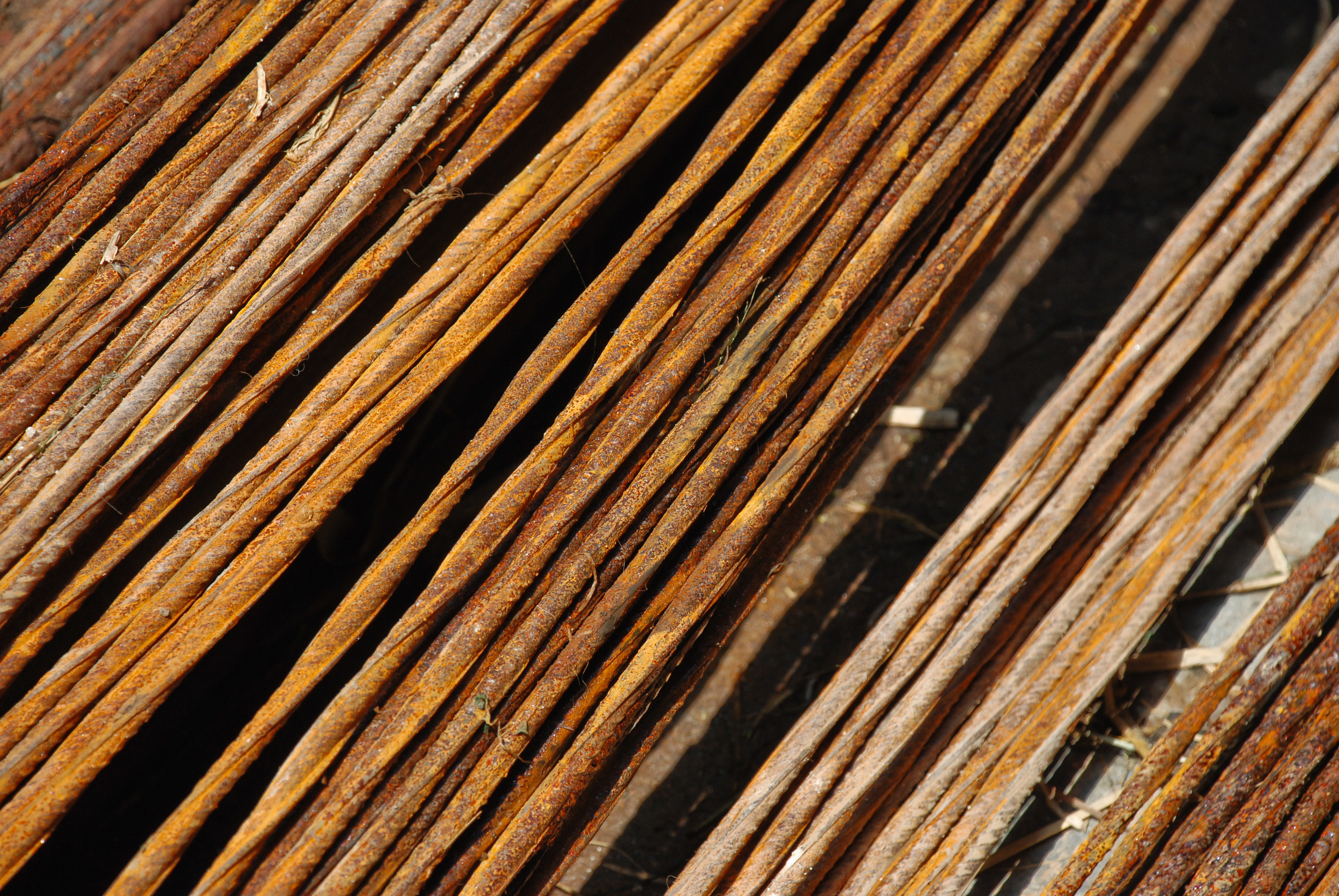 Steel reinforcement rods, a widely used building construction material, lying on a street in Khokana, Nepal.